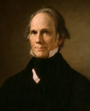 Oil on canvas portrait of Henry Clay by Henry F. Darby (1829-1897) Height: 49.25 inches (125.1 cm) Width: 39.75 inches (101 cm) Signature (lower right corner): H. F. DARBY Cat. no. 32.00002.000